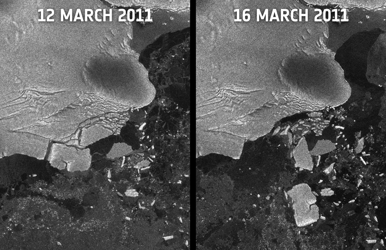 Images captured by Envisat’s Advanced Synthetic Aperture Radar on 12 March and 16 March 2011. The newly formed icebergs can clearly be seen in the second image.